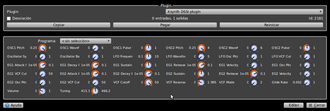 Xsynth dssi plugin windows